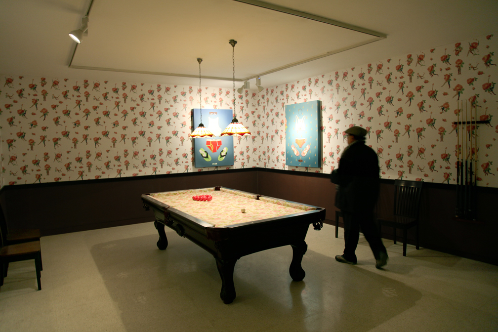 Beautiful game